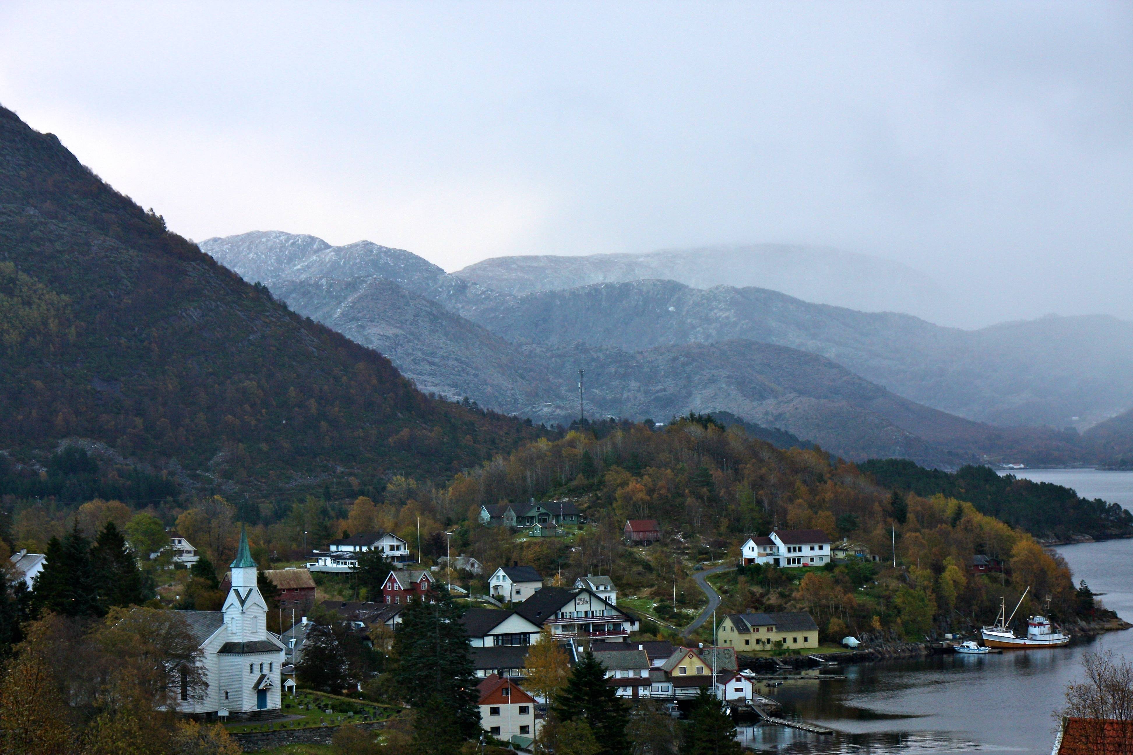 Gulen municipality, Norway.